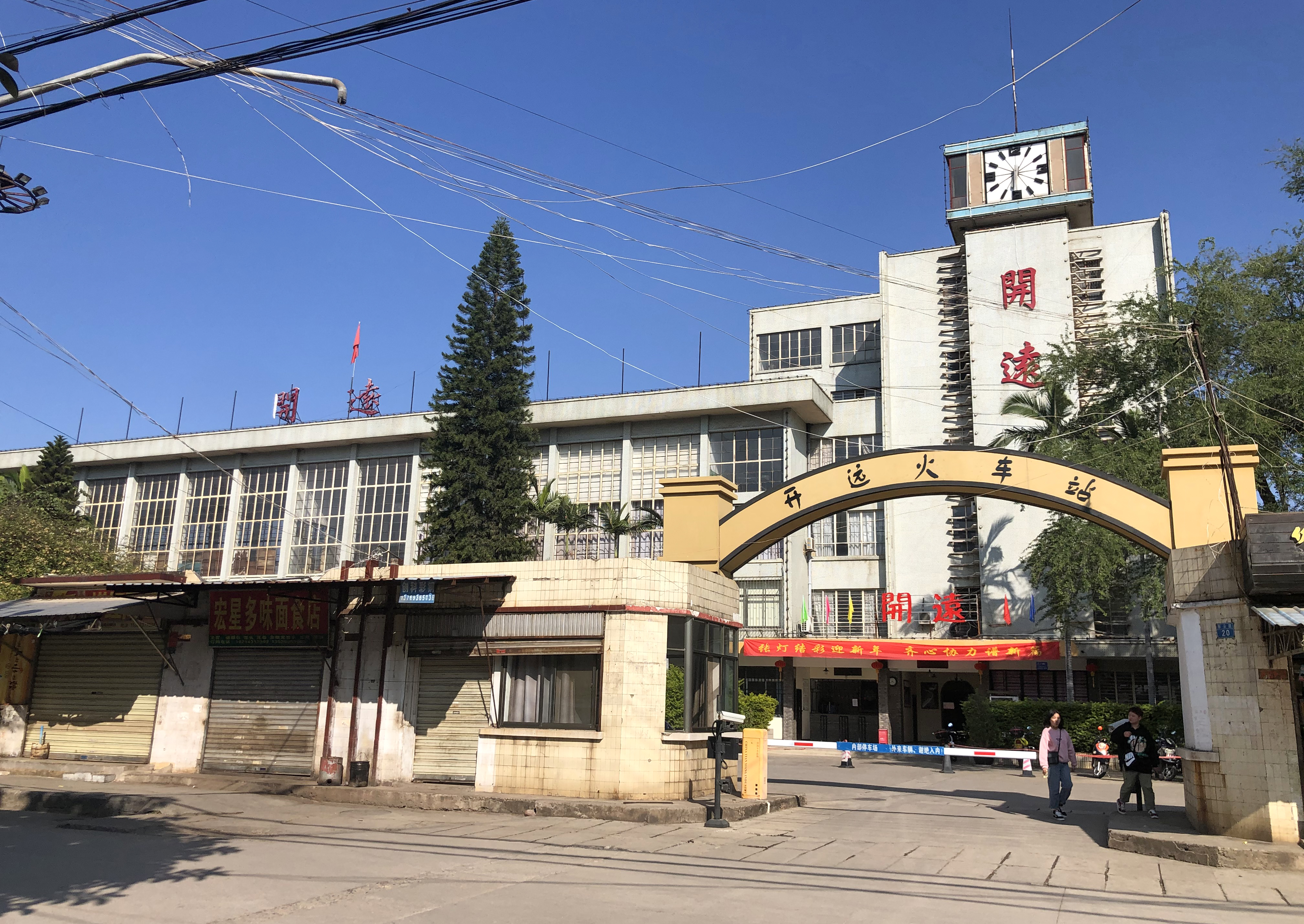 Didn't find the former locomotive depot...